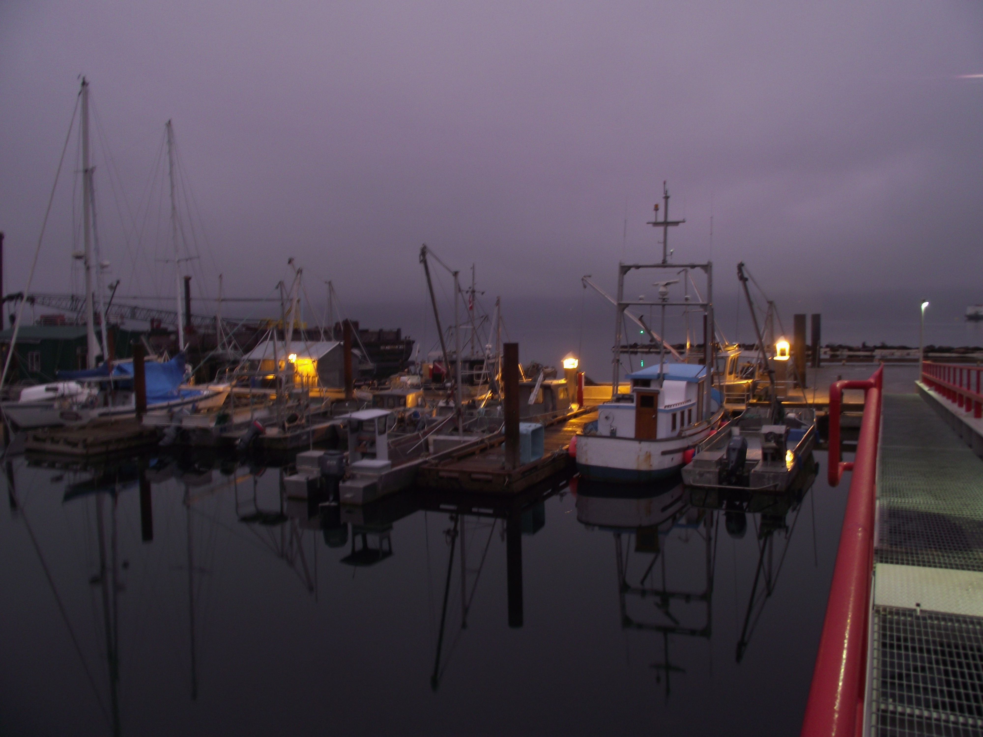 Oyster boats at Fanny Bay BC